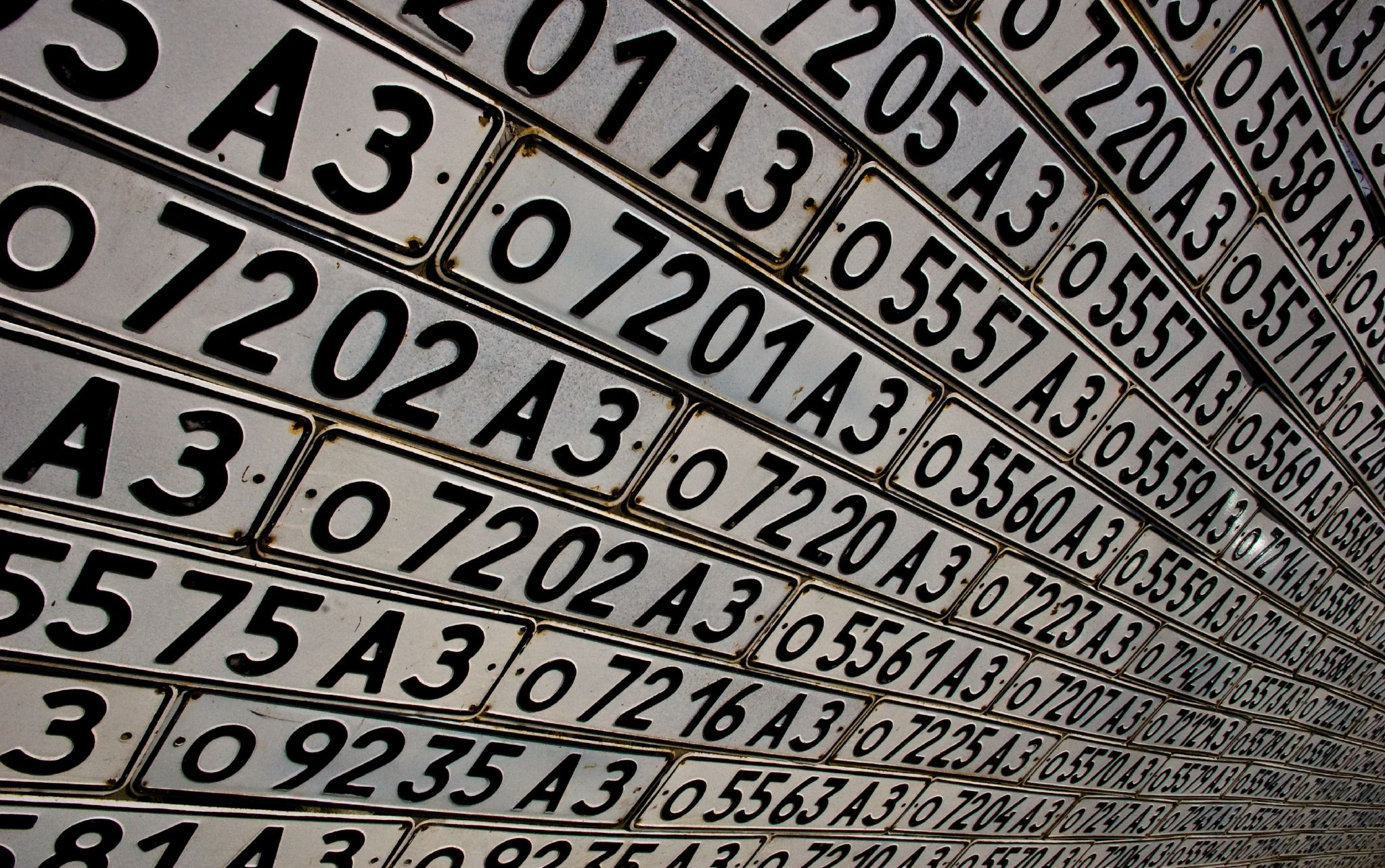 Fence made up of thousands of soviet era Azeri license plates. Karabakhi cars now use Armenian license plates.